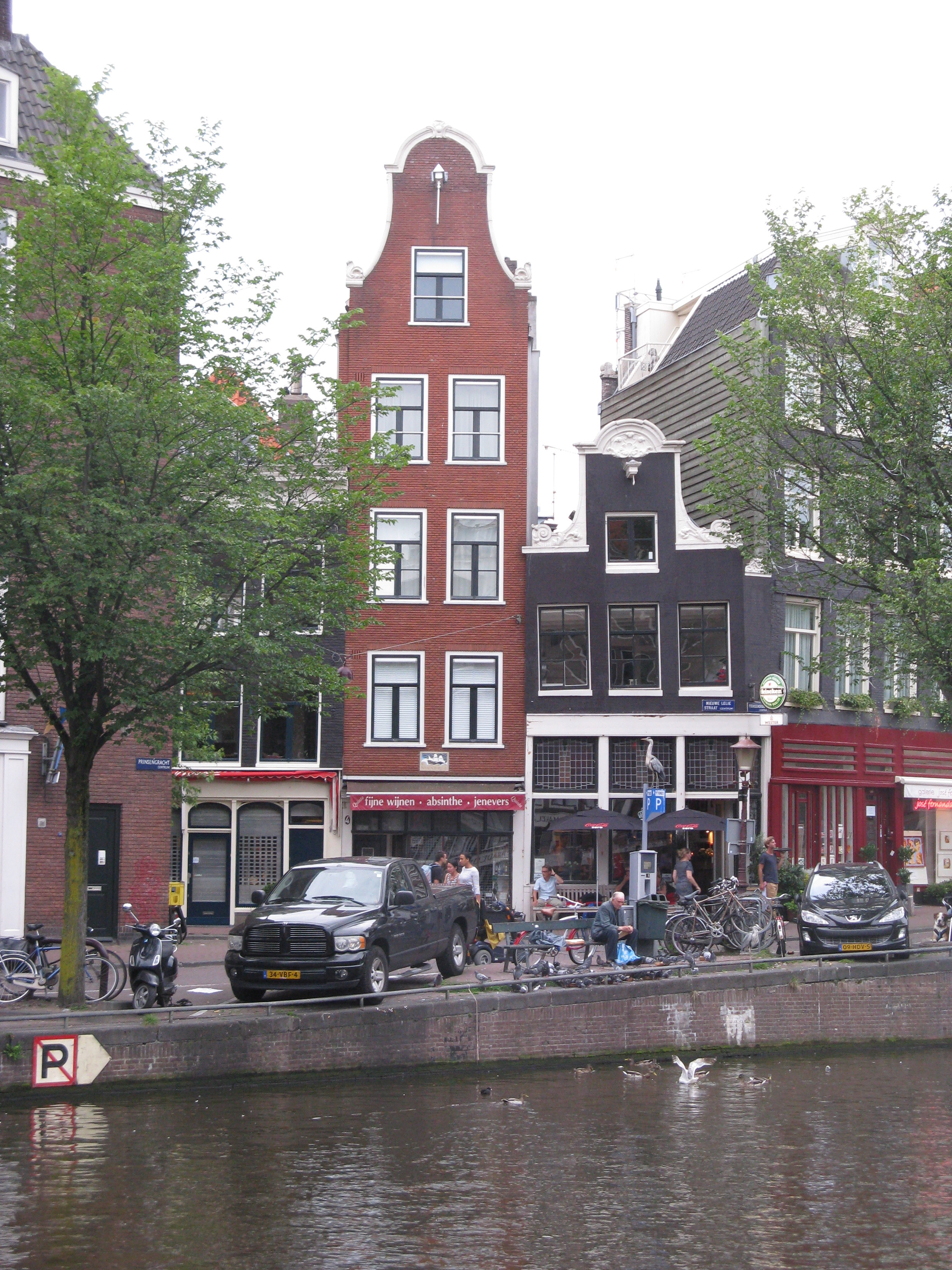 House on Nieuwe Leliestraat, Prinsengracht Amsterdam met galerie Jose Fernanda op hoek Prinsengracht 128, Amsterdam.